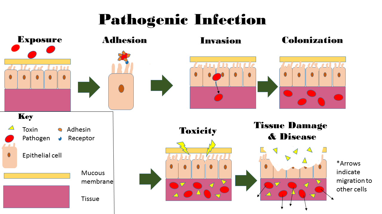 Infection occurs over many steps first starting with the exposure to the pathogen. The body’s skin and mucous membranes do a good job of protecting us from these kind of invaders, however when there is a break in the skin for example we become more susceptible to infection. Once exposed the pathogen travels through the mucous membrane and attaches to epithelial cells. This will ultimately give the pathogen a chance to invade further into the skin and grow in numbers or colonize that area. Once there is a high enough number of pathogens that have proliferated, the microbes use quorum sensing to determine when there is enough of them to spread further to other tissues. The pathogens then release toxins that subsequently cause tissue damage and disease.